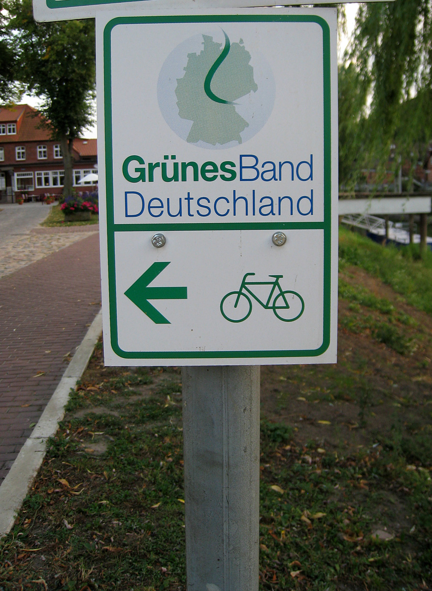 Sign for the "German Green Band" along the inner German border, at Hitzacker, Lower Saxony.